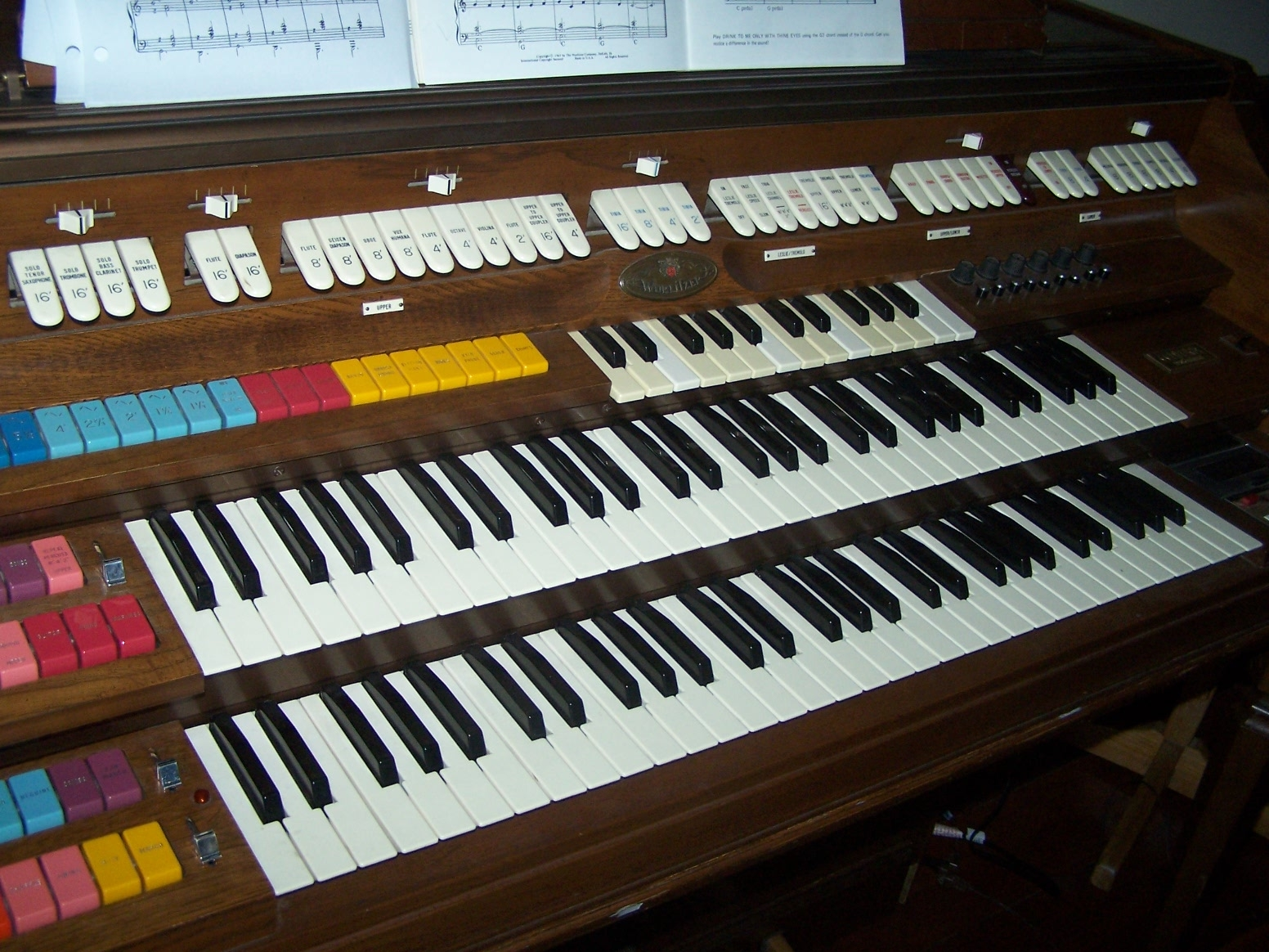 manuals on an electronic organ Wurlitzer 805 electronic organ upper mini key is Orbit III monophonic synthesizer